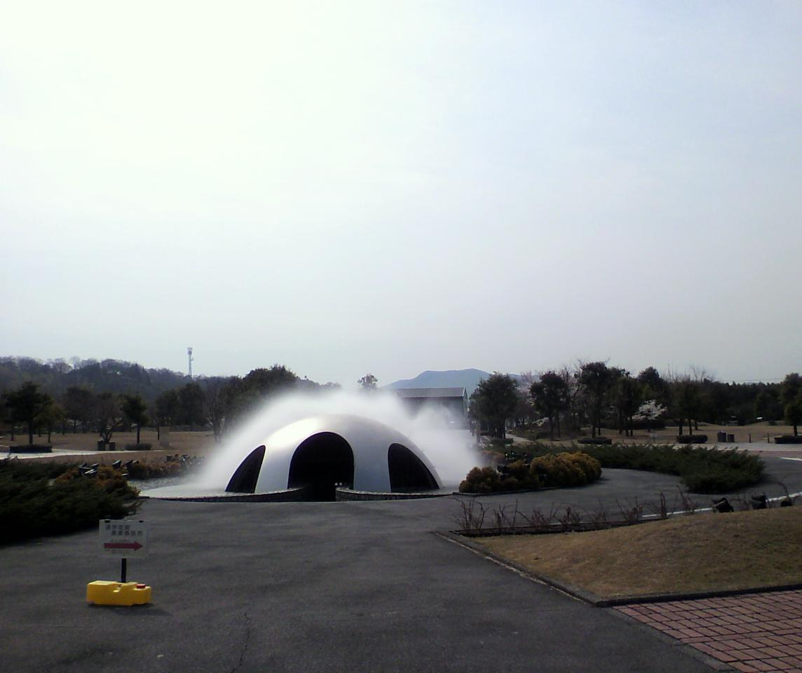 This is the fountain in Okayama Prefectural University(OPU), which is located Kuboki, Soja, Okayama, Japan.